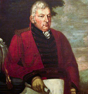 George Don, Governor of Gibraltar